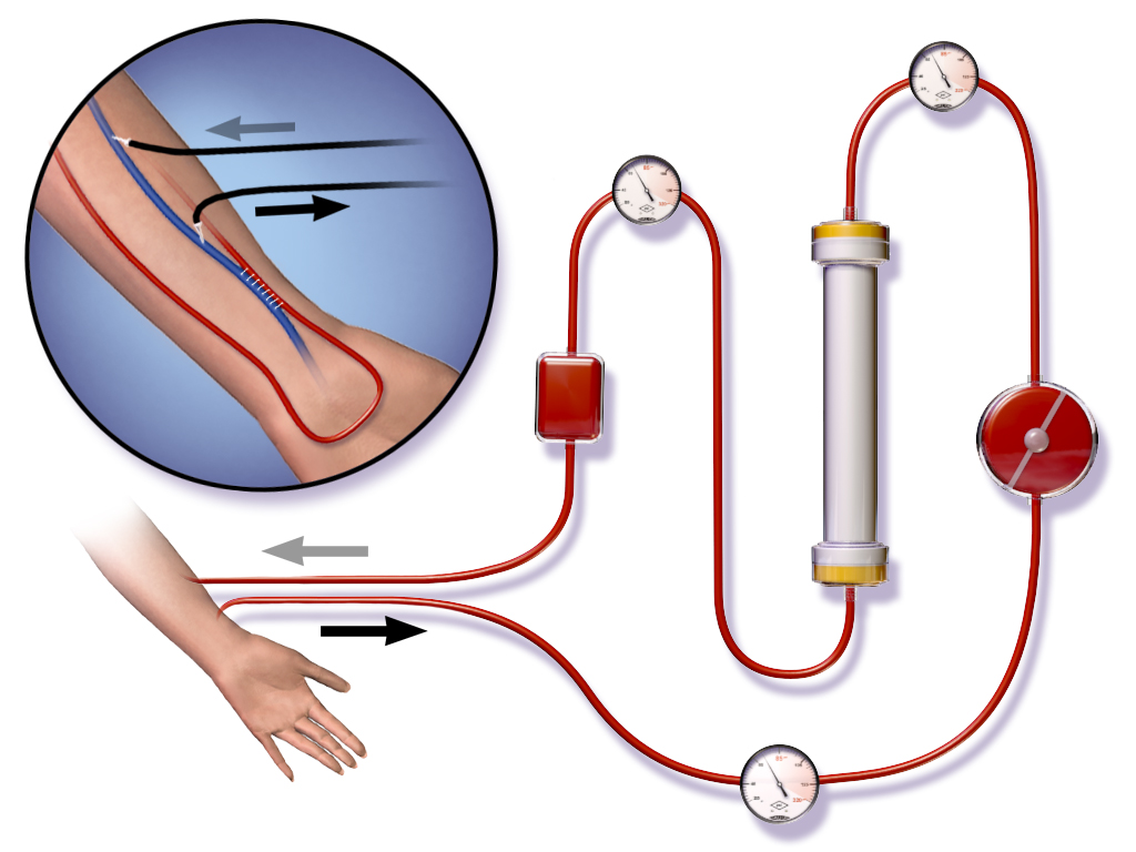 Hemodialysis. See a full animation of this medical topic.